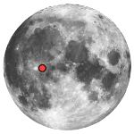 Description: Location of the Stadius crater on the Moon. Source: This is a modified version of the photo obtained from the NASA Planetary Photojournal. It was modified by RJHall. Width: 150 pixels Height: 150 pixels